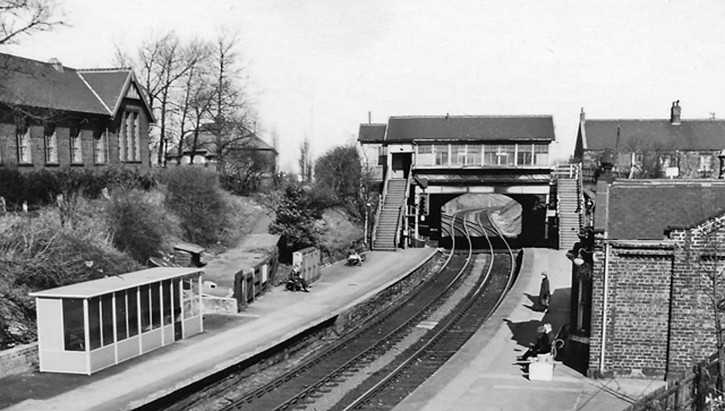 Backworth Station. View NE towards Blyth (left) and Whitley Bay - long before Tyne & Wear Metro. Closed June 1977.